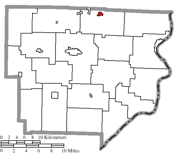 Map of the municipal and township boundaries of Monroe County, Ohio, United States, as of the 2000 census, with the location of the village of Beallsville highlighted. Township borders are shown only in unincorporated areas in order to differentiate incorporated and unincorporated areas more clearly.